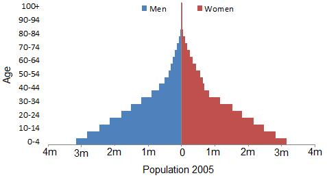 Work based on speadsheet available at below-mentioned server